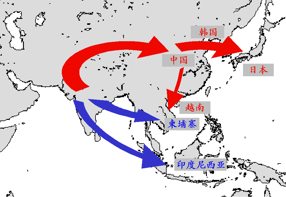 Mahayana Map by Chinese